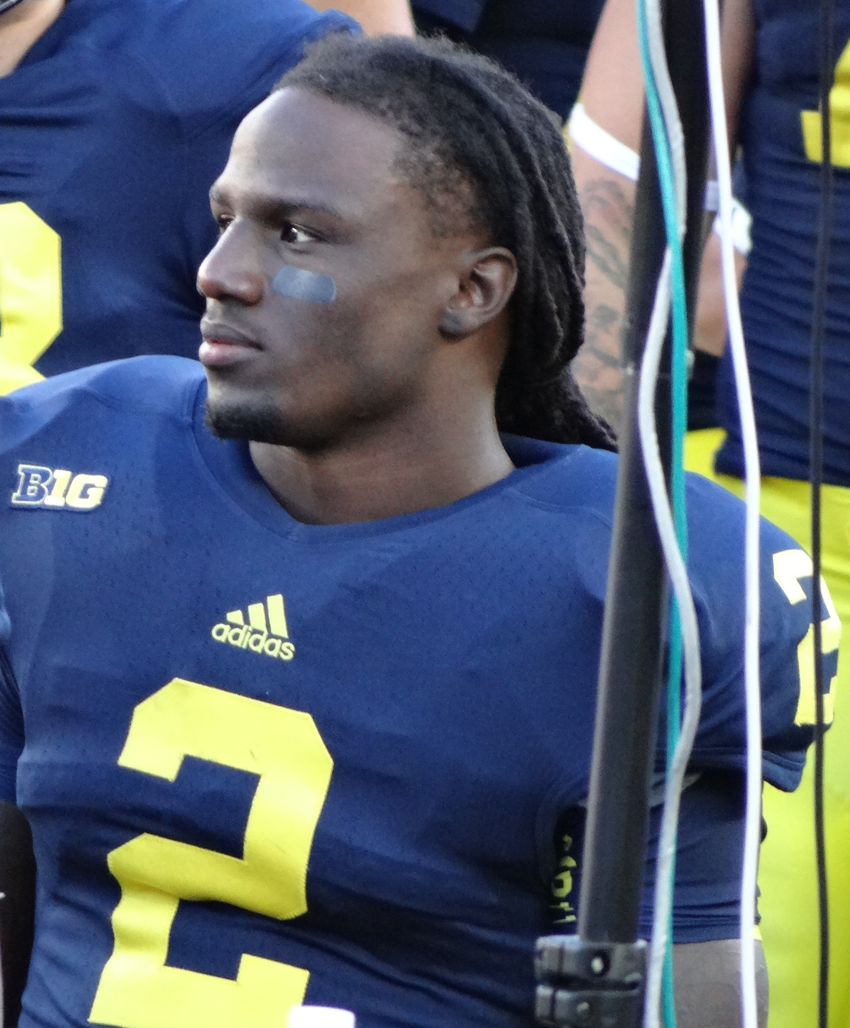 Vincent Smith on sidelines during UMass game